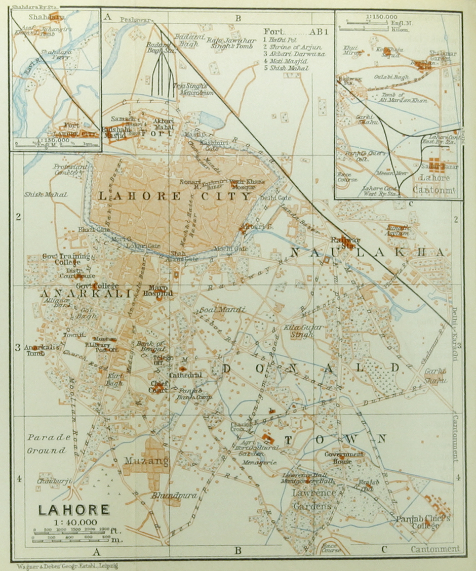 Map of the city of Lahore, ca 1914 (1:40,000), incl. two smaller inserted maps showing the railway bridge over the Ravi river and the railway connection to the Cantonment (both 1:150,000). Labelled in English